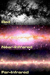 The image of the central region of our own Milky Way Galaxy shows how areas which cannot be seen in visible light can show up very brightly in the infrared. The top row shows these regions in visible red light. At this wavelength we are seeing the light from billions of stars, particularly the largest, brightest ones. Note the dark bands where vast clouds of dust block our view of more distant objects.The middle row shows the same regions in the near-infrared (infrared wavelengths closest to visible light). The bottom row shows the same regions in the far-infrared. IPAC: The Infrared Processing and Analysis Center (IPAC) is NASA's multi-mission center of expertise for long-wavelength astrophysics.